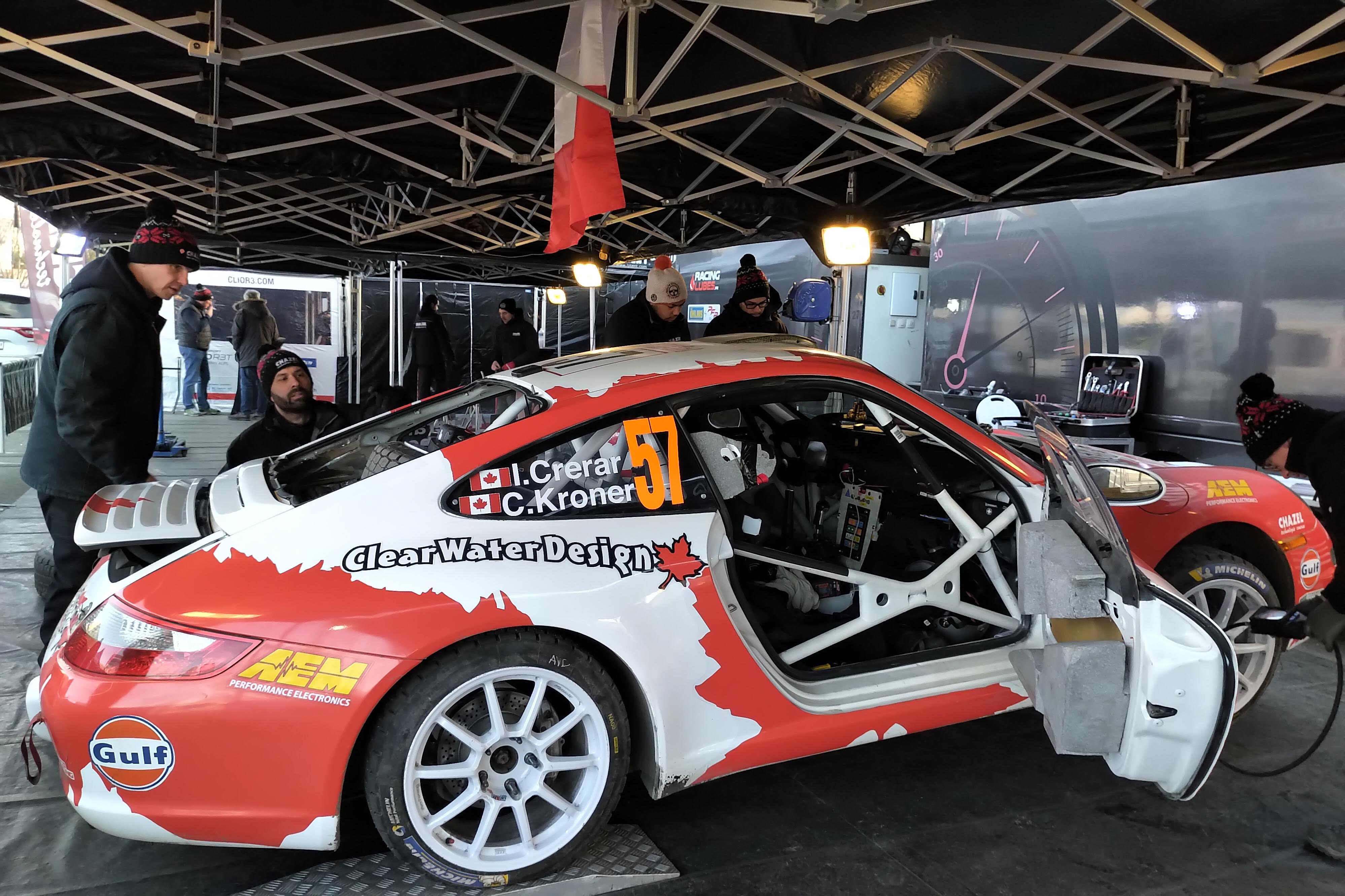 Crerar's Porsche 911 at the Service Park for Rallye Monte Carlo 2019.